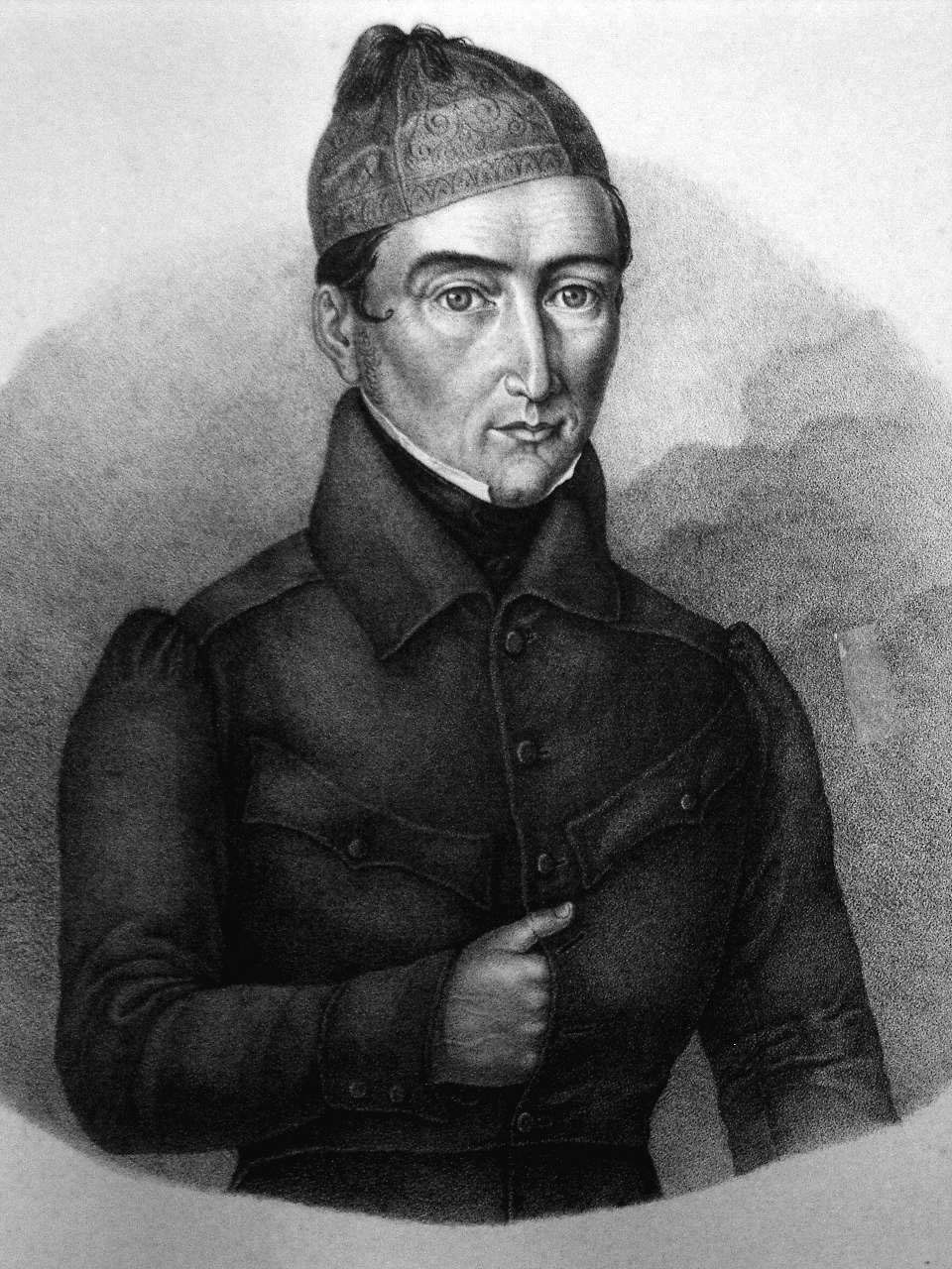 Gutkunst, Zeichner Hohenlohe-Schillingsfürst, Franz, Fürst zu Tonnelier, Lithograph Wehrt, A., Drucker, Braunschweig